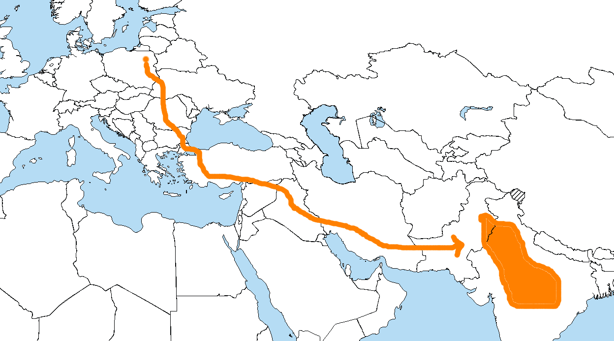 main migration route of nordeastern european breaders (Ficedula parva)